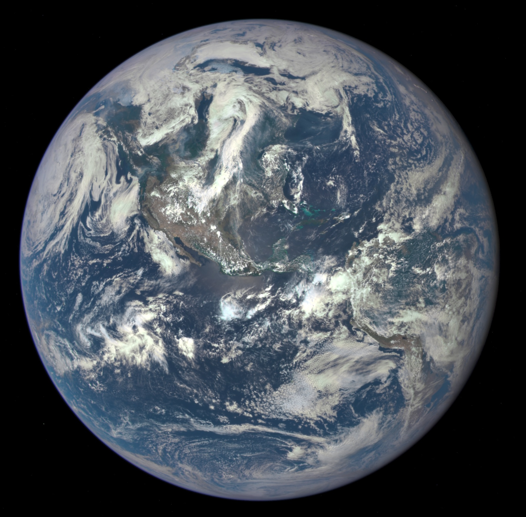 NASA Captures "EPIC" Earth Image A NASA camera on the Deep Space Climate Observatory satellite has returned its first view of the entire sunlit side of Earth from nearly one million miles away. This color image of Earth was taken by NASA’s Earth Polychromatic Imaging Camera (EPIC), a four megapixel CCD camera and telescope. The image was generated by combining three separate images to create a photographic-quality image. The camera takes a series of 10 images using different narrowband filters -- from ultraviolet to near infrared -- to produce a variety of science products. The red, green and blue channel images are used in these color images. The image was taken July 6, 2015, showing North and Central America. The central turquoise areas are shallow seas around the Caribbean islands. This Earth image shows the effects of sunlight scattered by air molecules, giving the image a characteristic bluish tint. The EPIC team is working to remove this atmospheric effect from subsequent images. Once the instrument begins regular data acquisition, EPIC will provide a daily series of Earth images allowing for the first time study of daily variations over the entire globe. These images, available 12 to 36 hours after they are acquired, will be posted to a dedicated web page by September 2015. The primary objective of DSCOVR, a partnership between NASA, the National Oceanic and Atmospheric Administration (NOAA) and the U.S. Air Force, is to maintain the nation’s real-time solar wind monitoring capabilities, which are critical to the accuracy and lead time of space weather alerts and forecasts from NOAA.